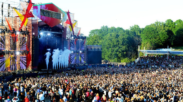 SPG Event organized the Summerburst electronic dance music festival in Stockholm and Gothenburg. The festival was first held in 2011